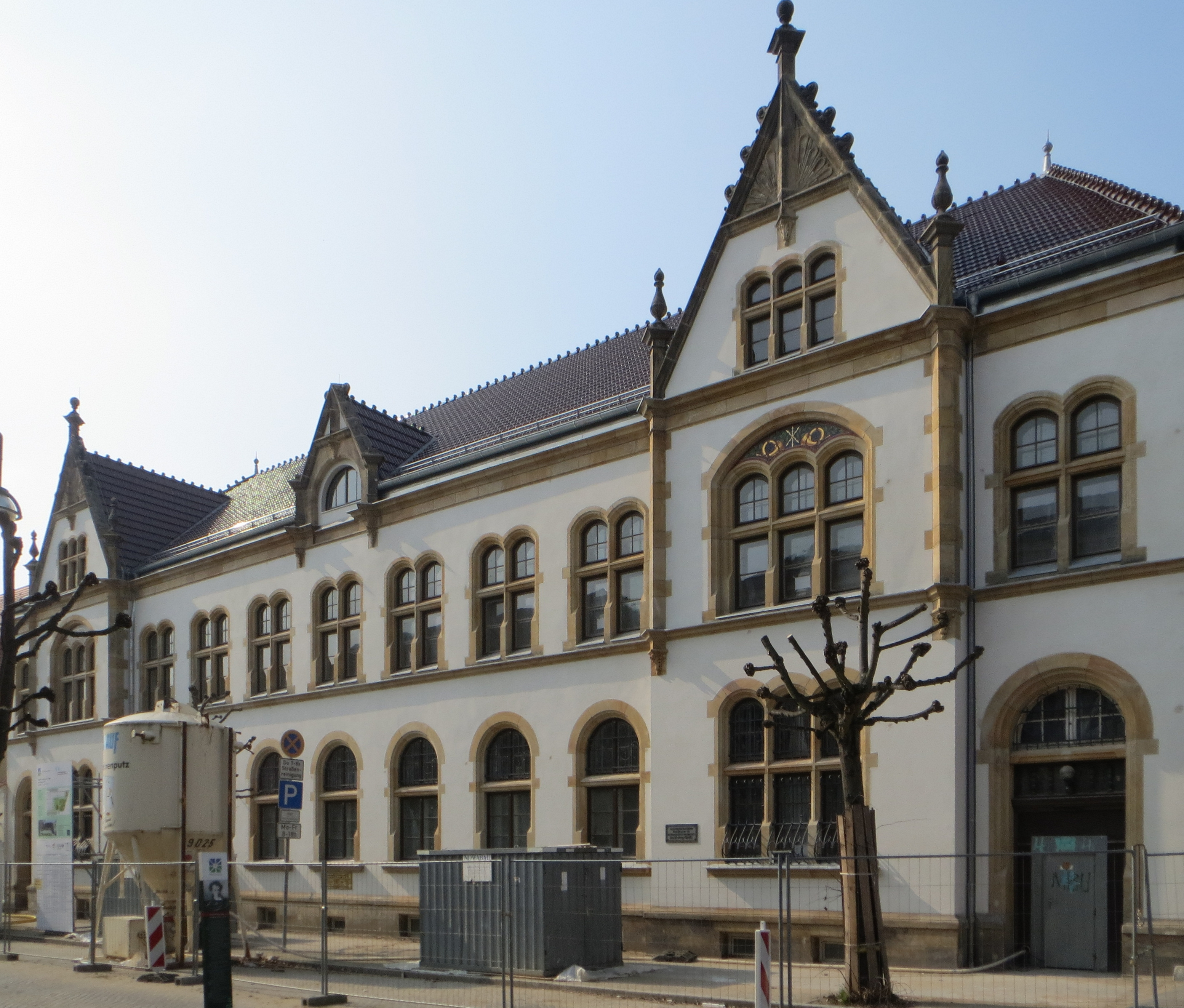 Schlossstrasse 12/13